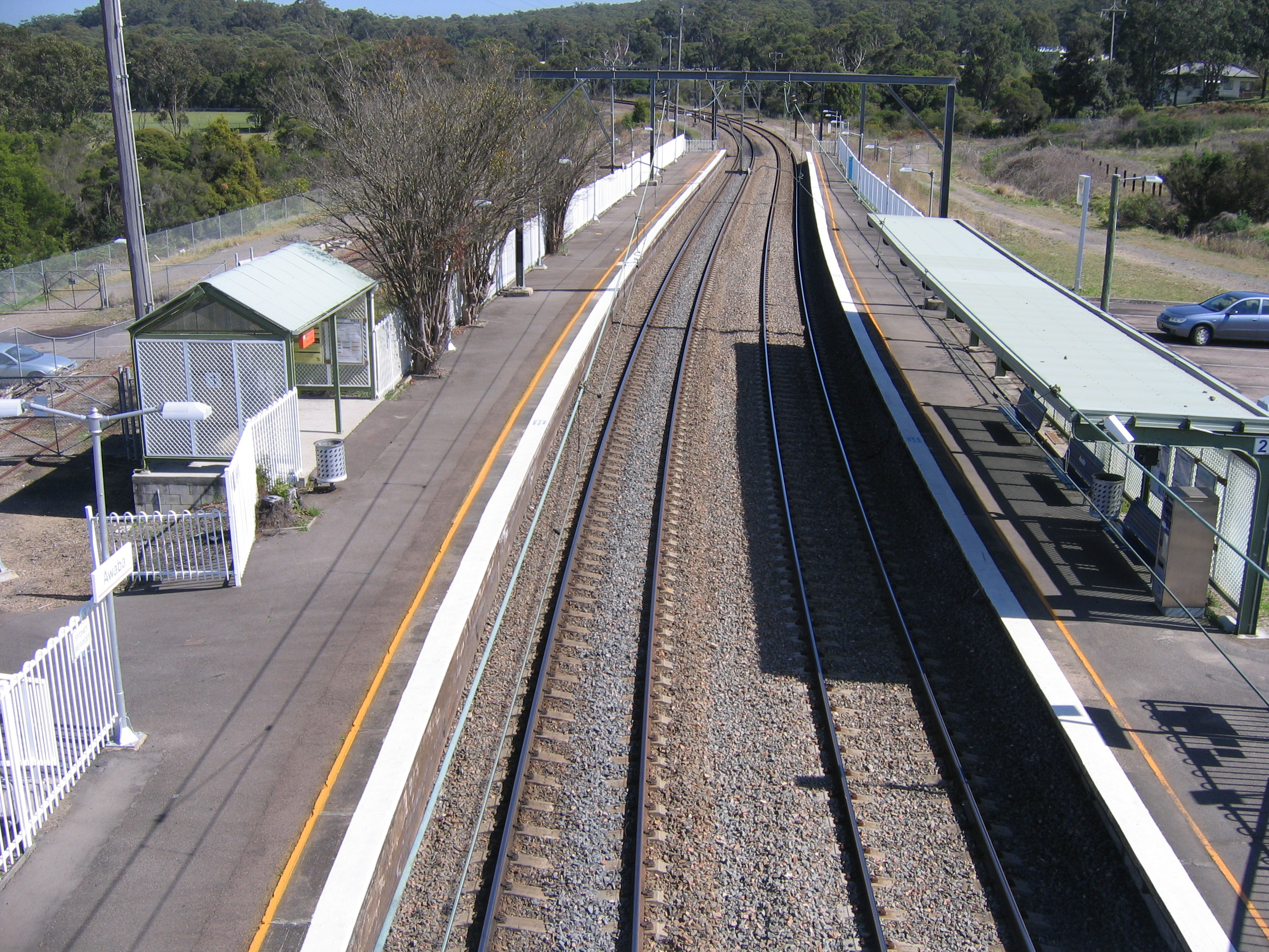 Awaba Railway station viewed from overbridge